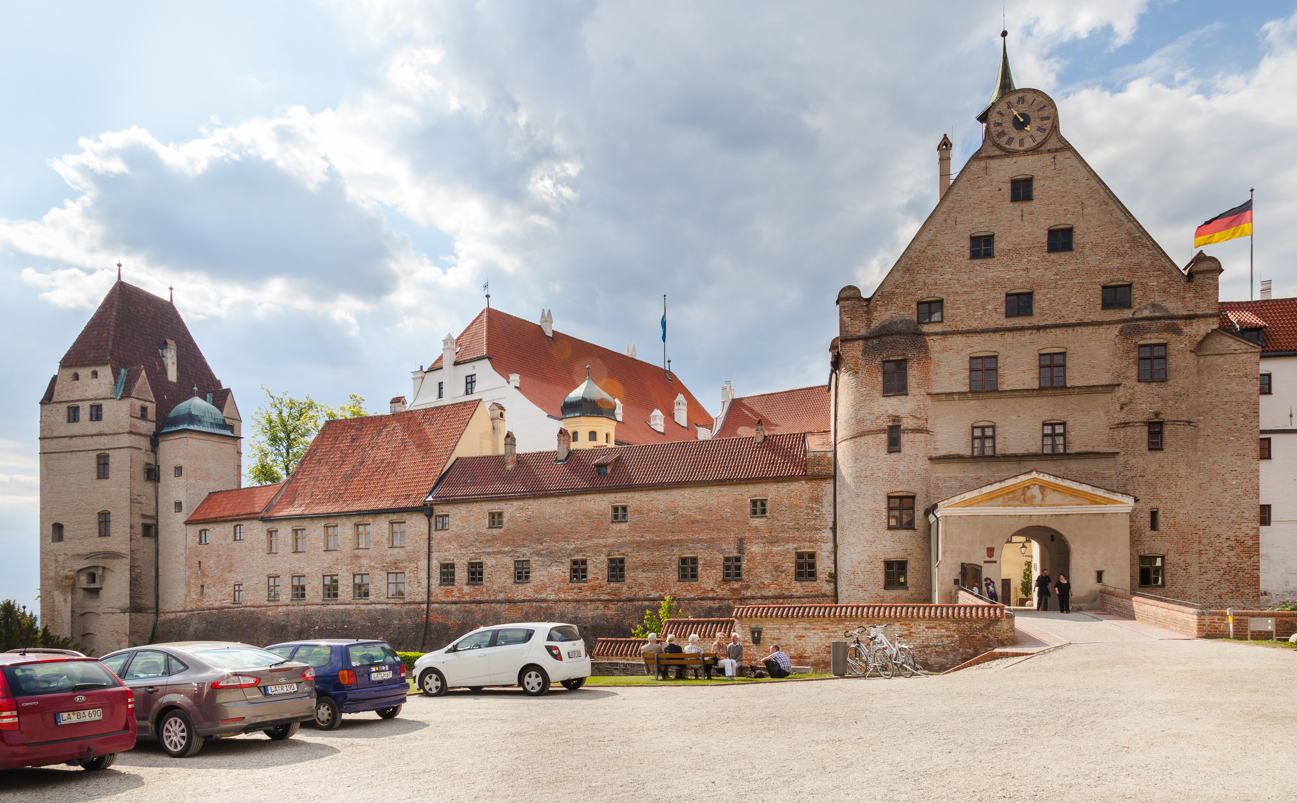 Trausnitz castle, Landshut, Germany